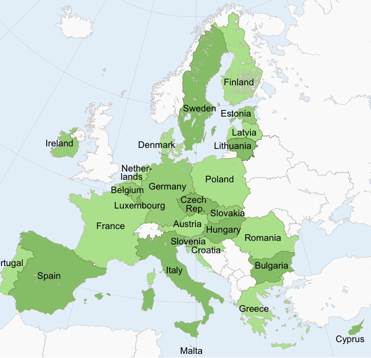 Member states of the European Union without the United Kingdom, as at 31 January 2020